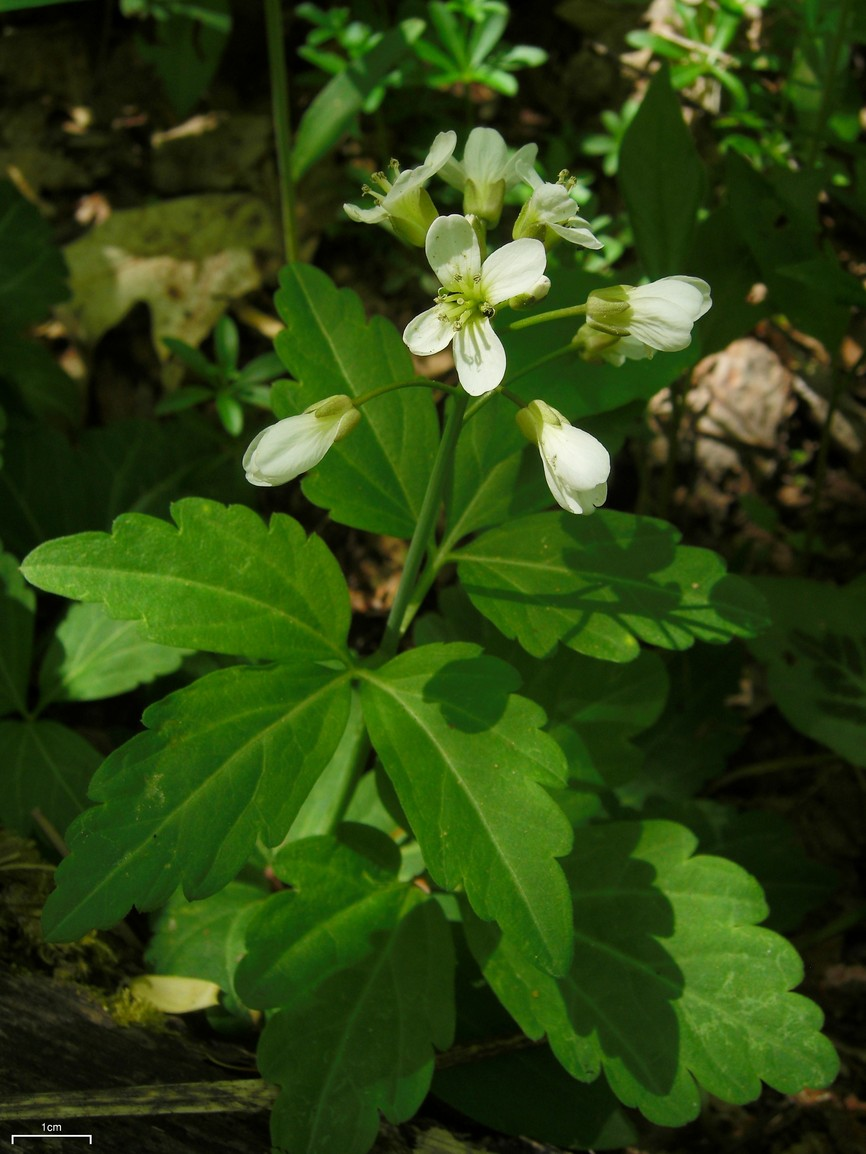 Dentaria diphylla 20100504.22 Great Smoky Mountains, NC